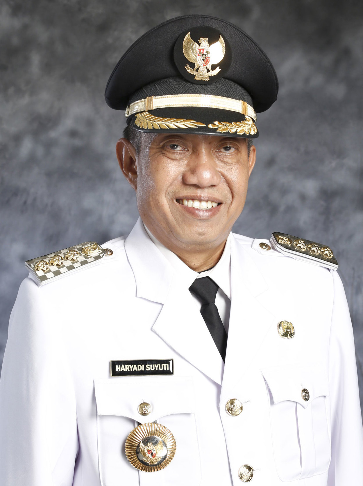 Haryadi Suyuti as Mayor of Yogyakarta (Second Period)